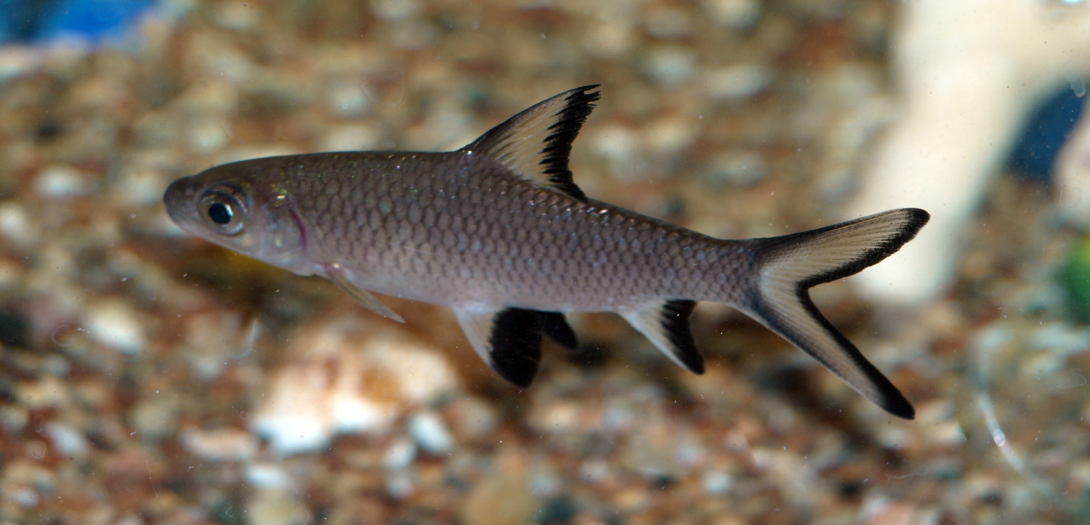 A Bala shark in my aquarium Damascus - Syria